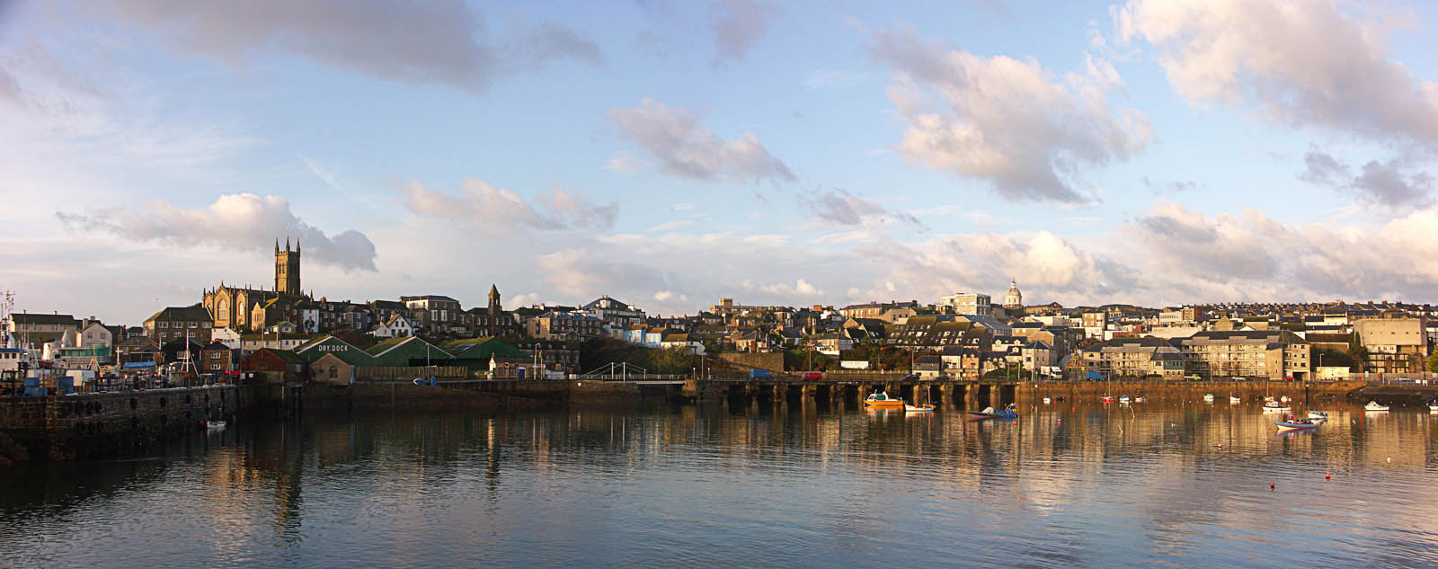 A panoramic view of Penzance harbour in Cornwall, England. Author: Mark Twyning